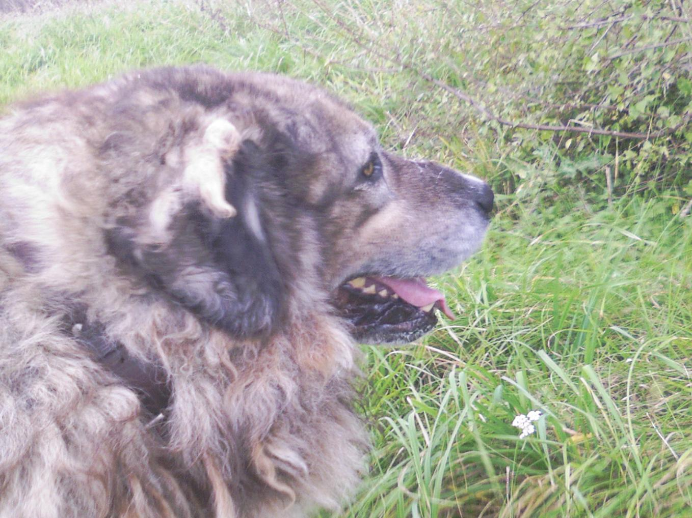 Caucasian Shepherd Dog "Soso"